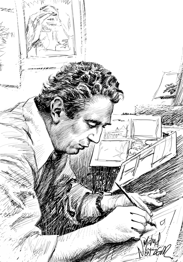 A portrait Illustration of comics inker Jack Abel by Michael Netzer for his Portraits of the Creators Sketchbook. It is inspired by a photograph taken by Greg Theakston in 1977 at Continuity Associates where Jack worked as a freelance inker. Netzer shared a workspace with Abel and sat behind his desk, along with Terry Austin and Bob Wiacek.